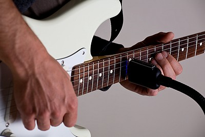 Playing technique with the Vibesware Guitar Resonator